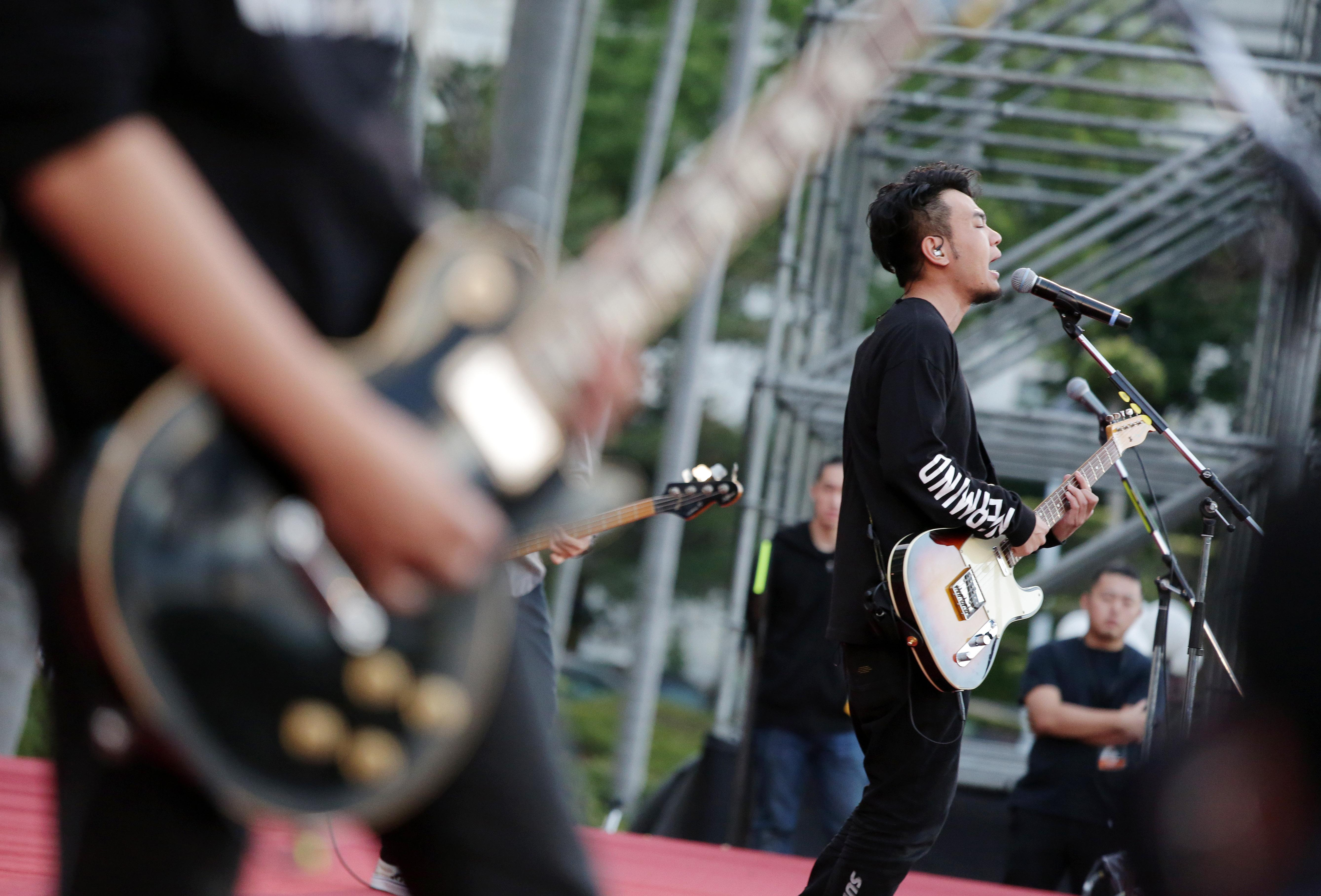 Fire Ex performs live after the flag-raising ceremony. (The ROC’s 2017 New Year flag-raising ceremony in front of the Presidential Office Building, 2017/01/01) 授權方式及範圍：中華民國總統府│政府網站資料開放宣告 Authorization Method & Scope: Office of the President, Republic of China (Taiwan) | Government Website Open Information Announcement